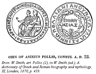 Coin by Asinius Pollio (consul in 23).